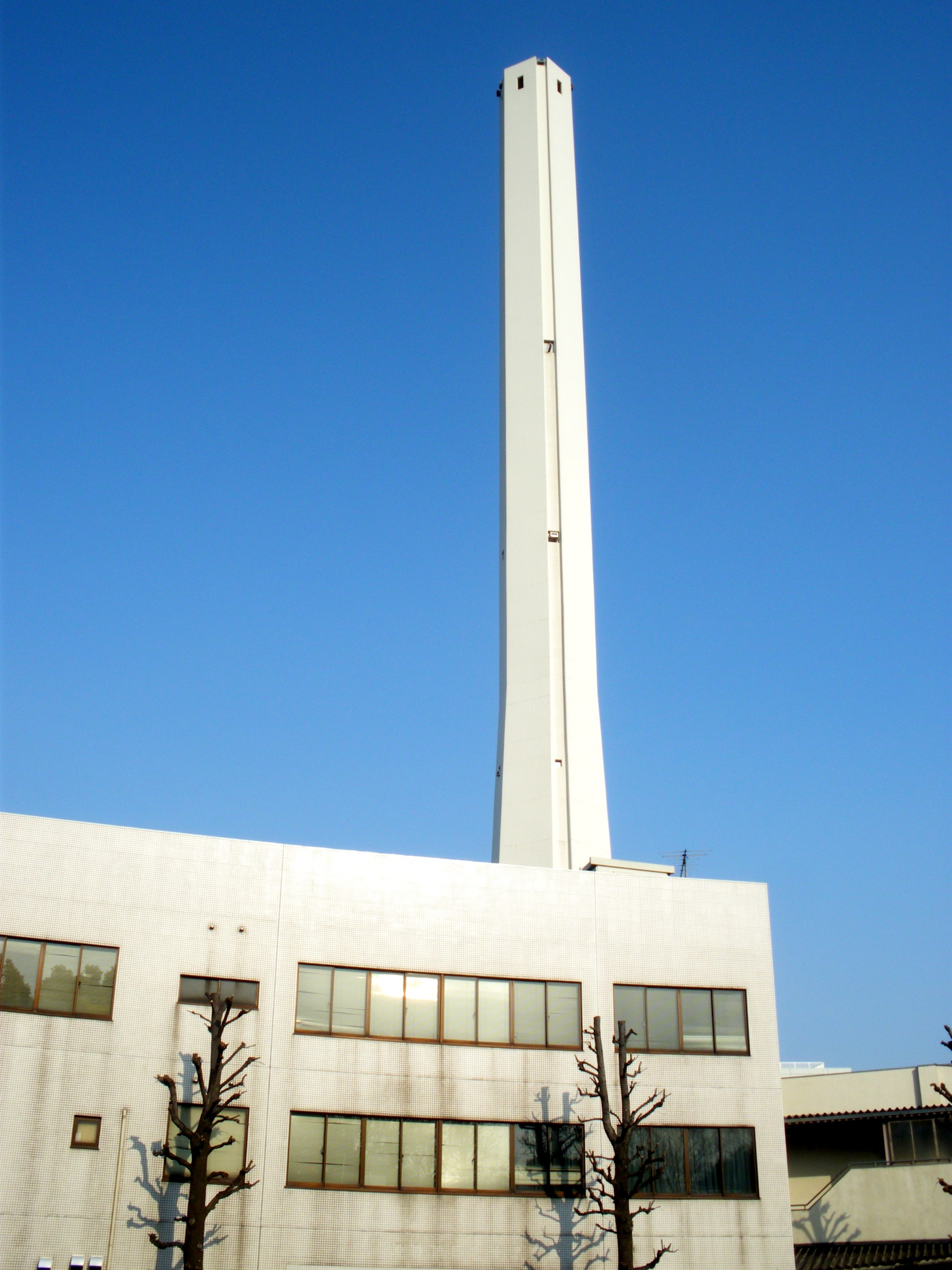 Chitose garbage and sewage plant(Hachimanyama,Setagaya,Tokyo)